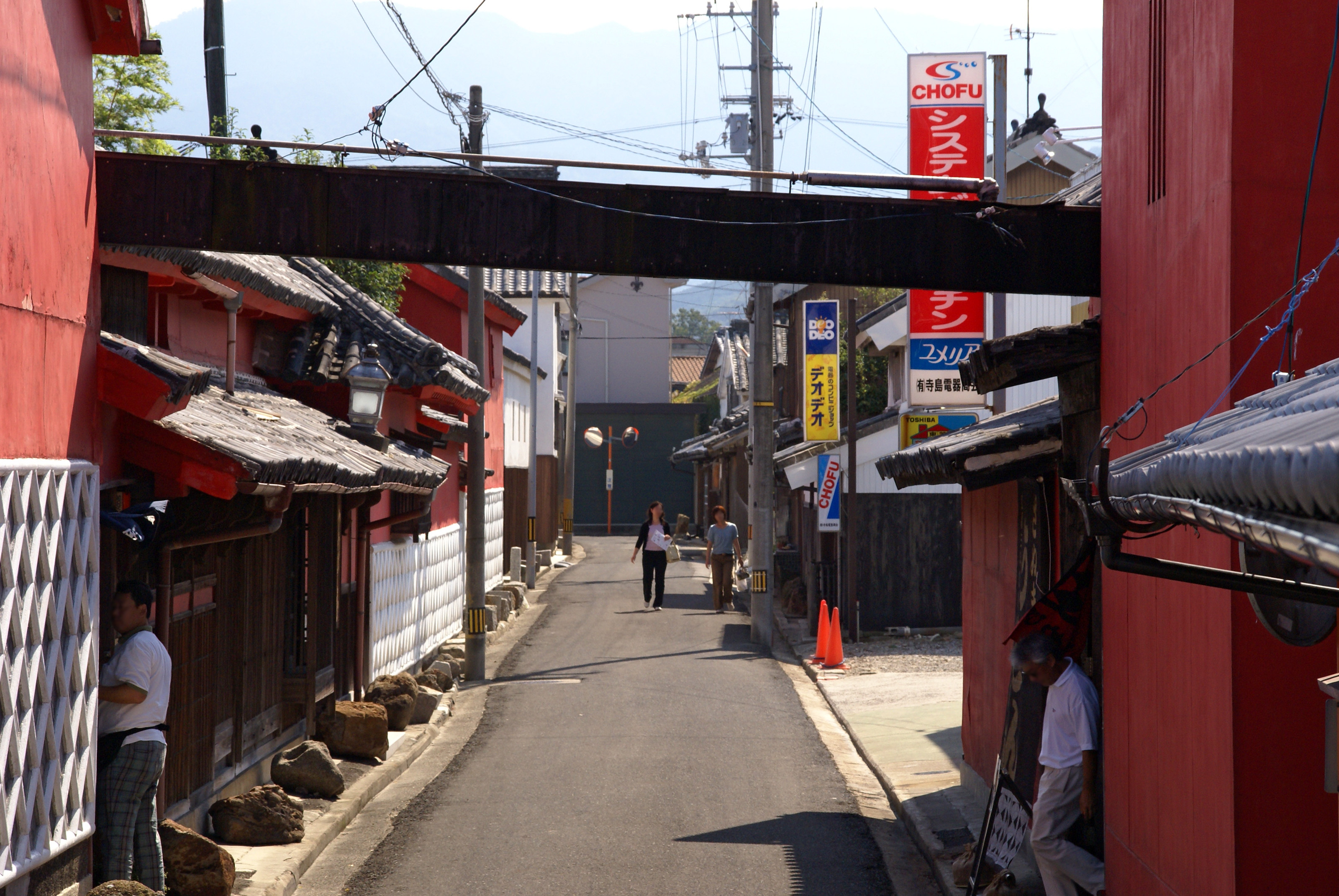 Kamebishi-ya in Hiketa, Higashikagawa, Kagawa prefecture, Japan